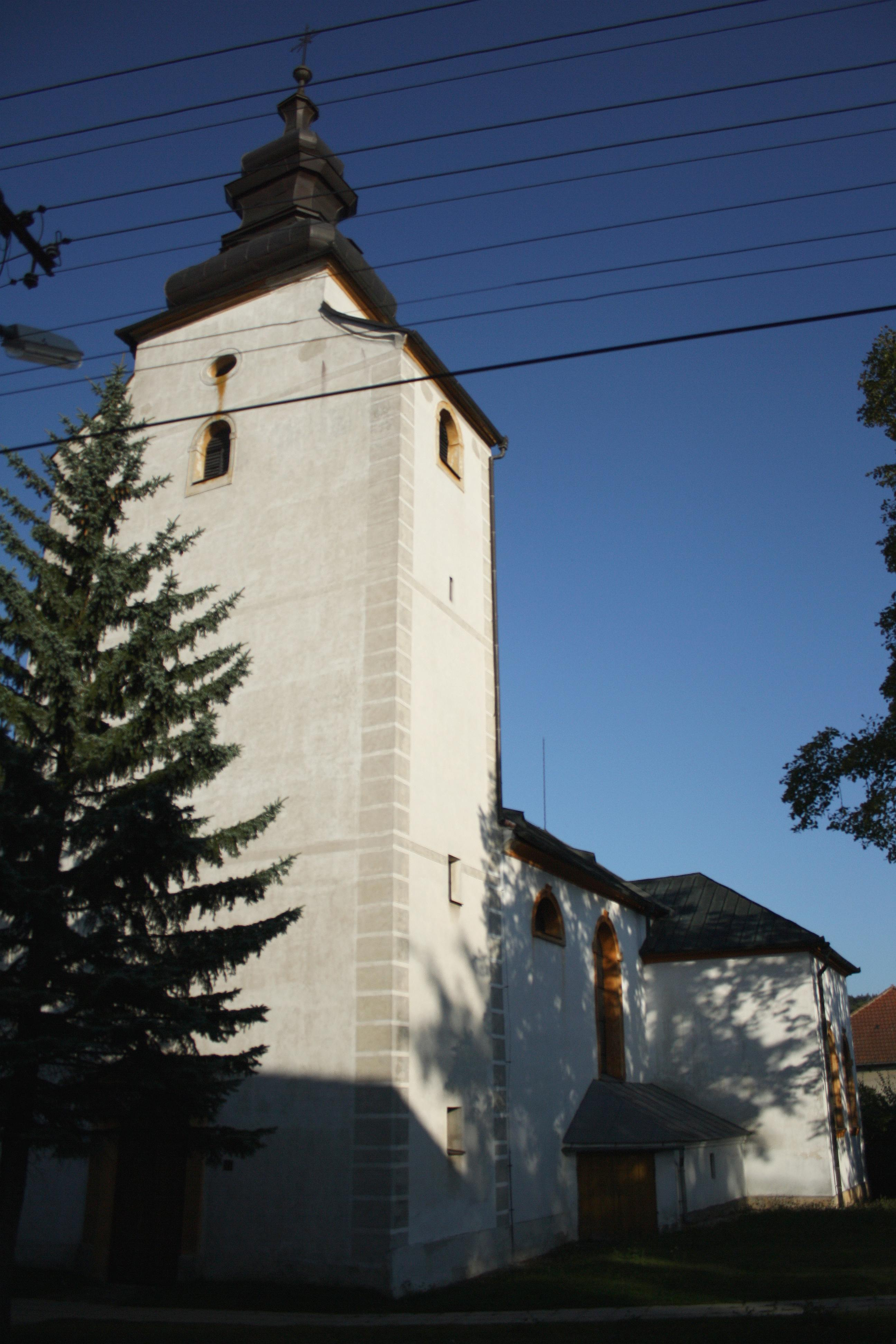 Saint Lawrence church in Červená Lhota, Czech Republic.